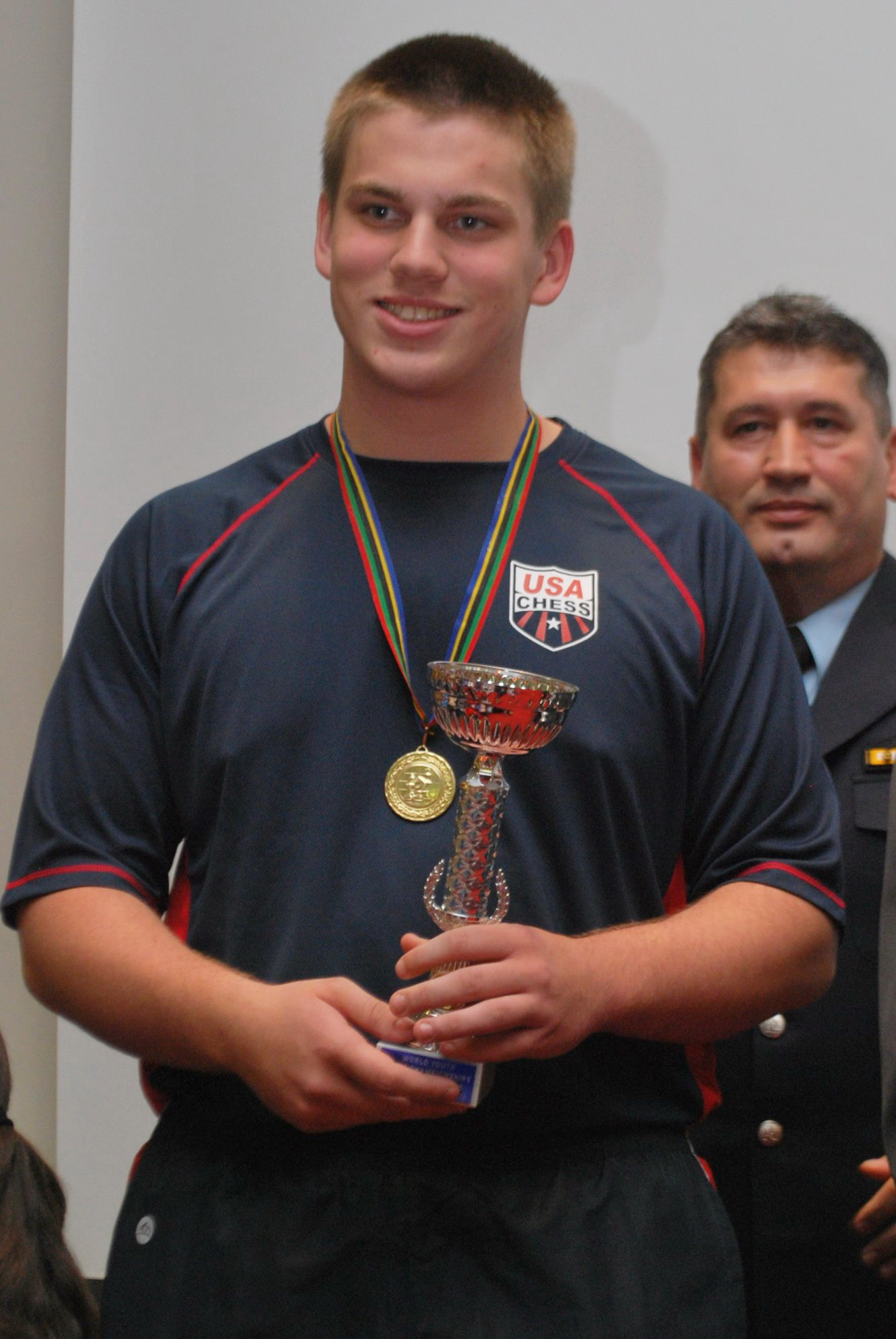 Steven C Zierk, World Youth Chess Championship, Porto Carras 2010.